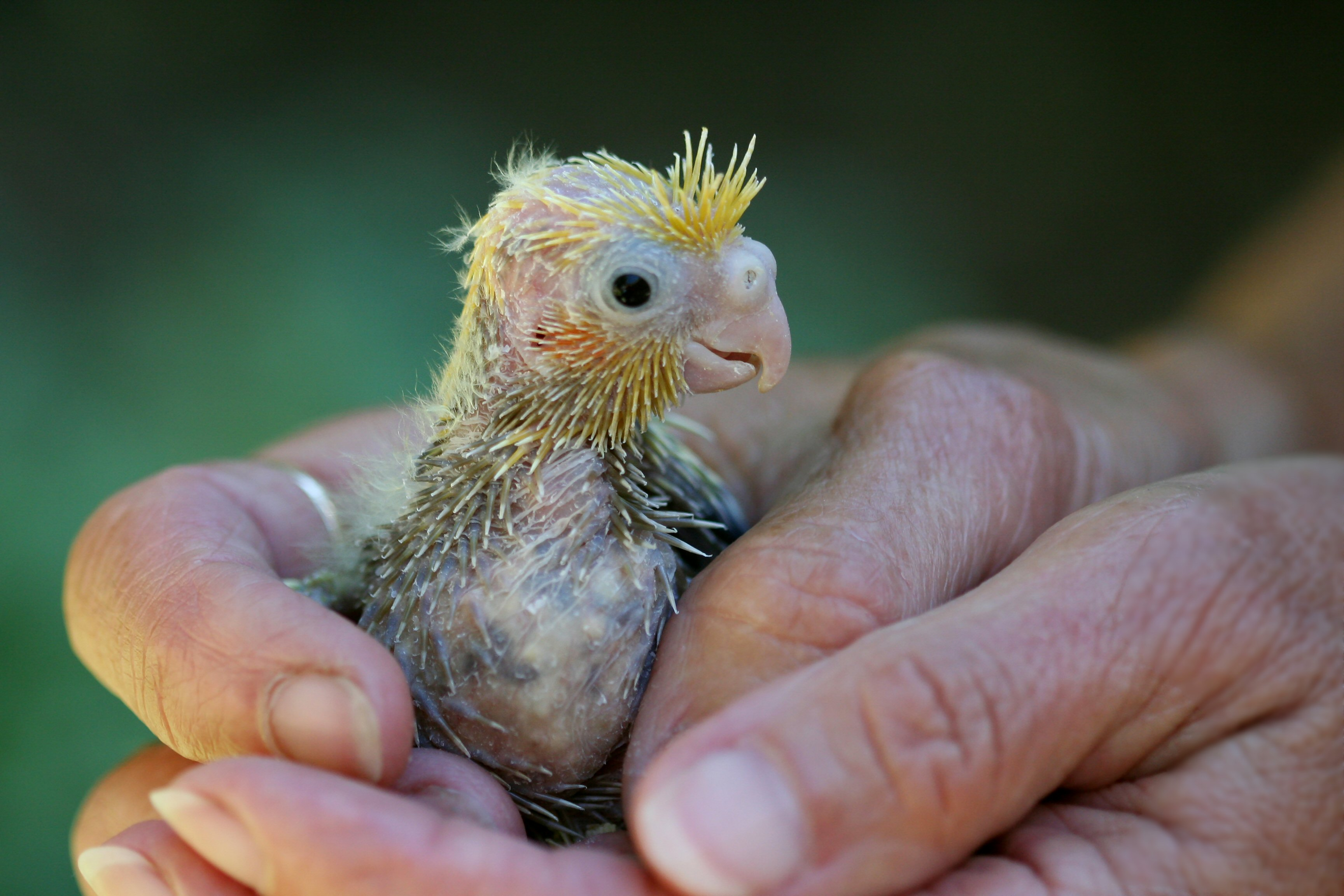 A Cockatiel chick being held in two hands.